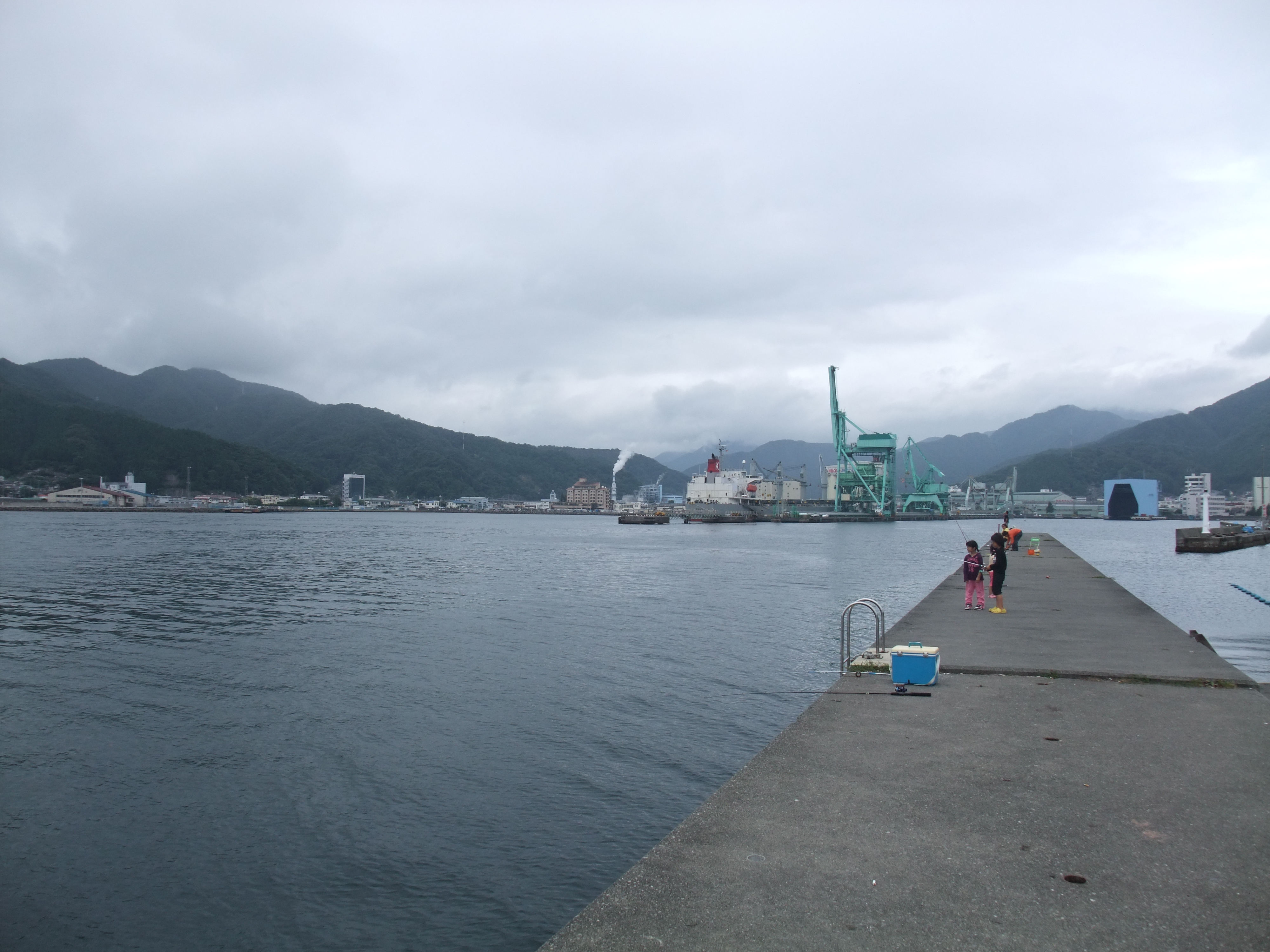 Port of Kamaishi, seen from the T-shaped Breakwater